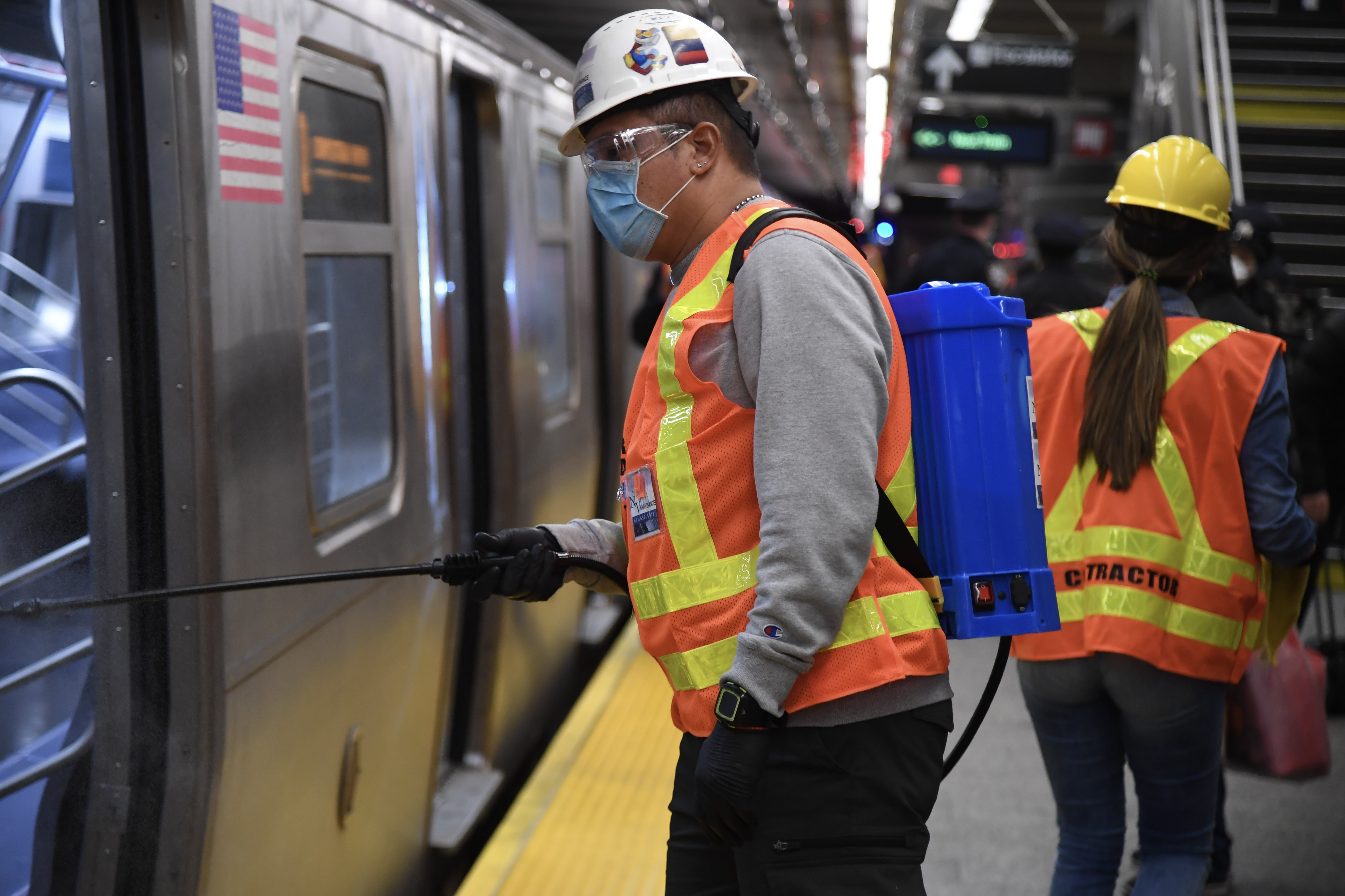 On Wednesday, May 6, the Metropolitan Transportation Authority began its unprecedented 24/7 cleaning operation and new MTA Essential Plan Night Service during the subway closure from 1 – 5 a.m. The new cleaning and disinfecting regimen marks the most aggressive in the MTA’s history, and will include around-the-clock efforts at all facilities. Photo: Marc A. Hermann / MTA New York City Transit